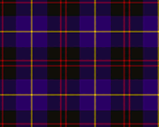 rgu tartan